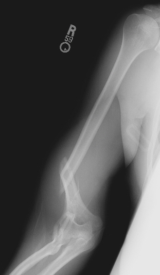 X-ray of a right humerus bone including elbow joint and a portion of the shoulder joint. It shows a badly displaced fracture of the humerus. It was broken on 6 Aug 2007 during an arm wrestling match.